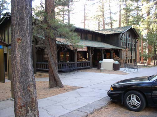 North Rim Inn, also called the Grand Canyon Inn, North Rim of the Grand Canyon, Arizona, USA. Not to be confused with the Grand Canyon Lodge or the El Tovar Hotel.